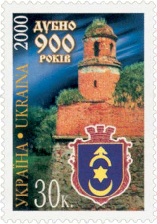 Stamp of Ukraine